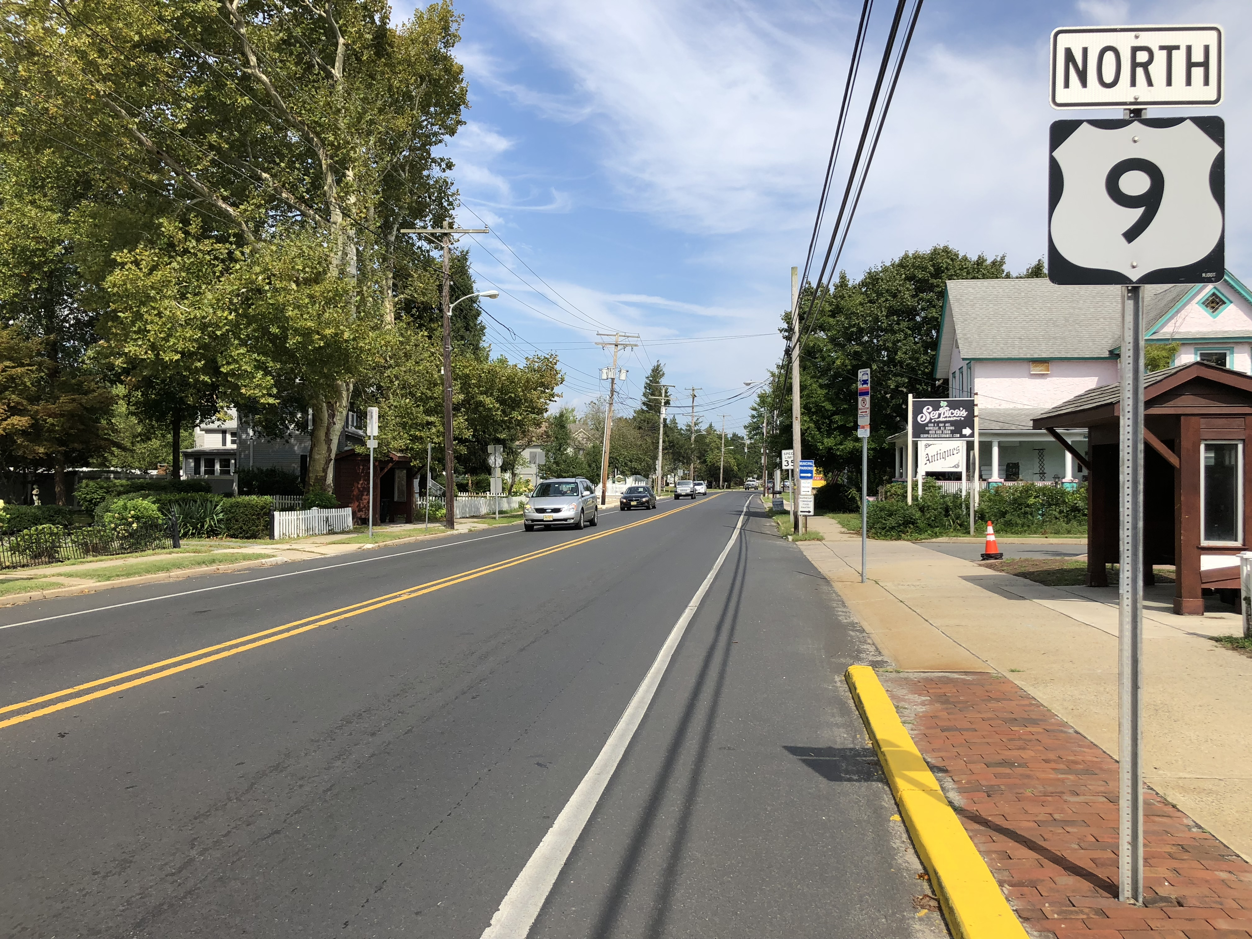 View north along U.S. Route 9 (Main Street) just north of Ocean County Route 554 and Ocean County Route 609 (Bay Avenue) in Barnegat Township, Ocean County, New Jersey